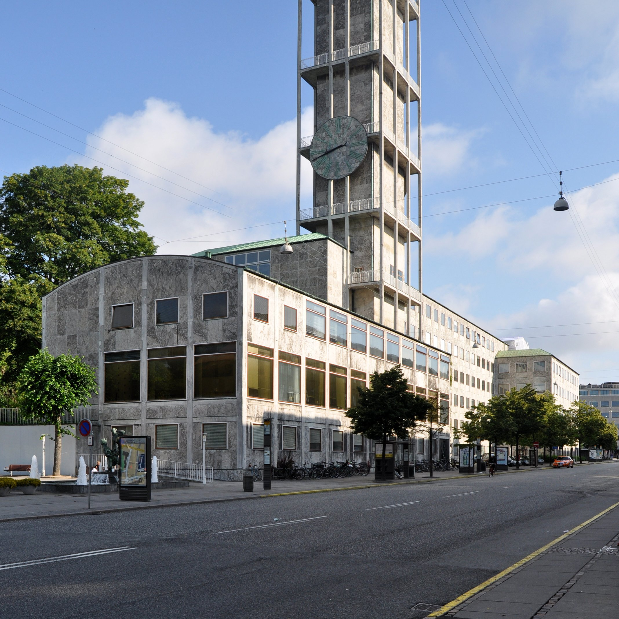 Aarhus City Hall, exterior view from south.